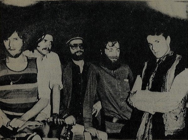 Lard Free Golf Drouot Francois Mativet guitar, Jean Jacques Miette bass guitar, Philippe Bolliet sax, Gilbert Artman drums, Dominique Triloff organ